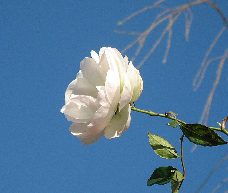 A white rose.